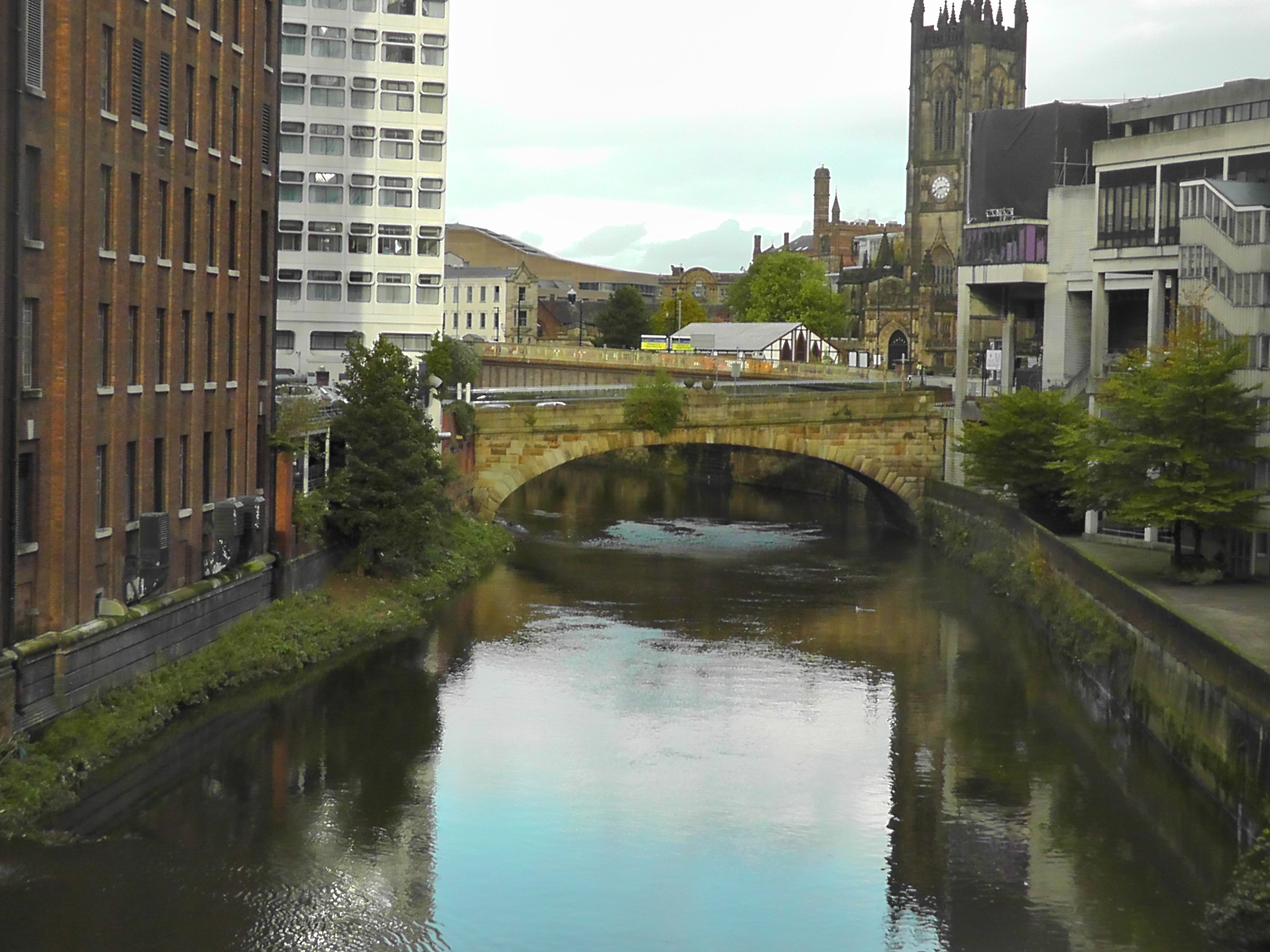 River Irwell from Blackfriar's bridge in Manchester UK